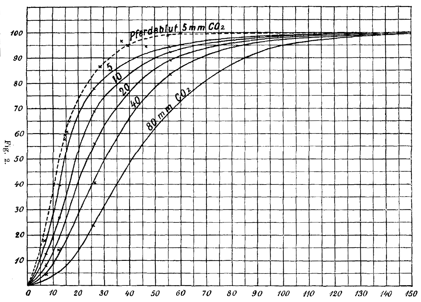 First description of the Bohr effect, upon which pH affects binding of oxygen by hemoglobin. This is also one of the first example of cooperative binding. X-axis: oxygen partial pressure in mmHg, y-axis % oxy-hemoglobin. The measurements were made with freshly obtained dog blood, except for the top curve, which represents horse blood.